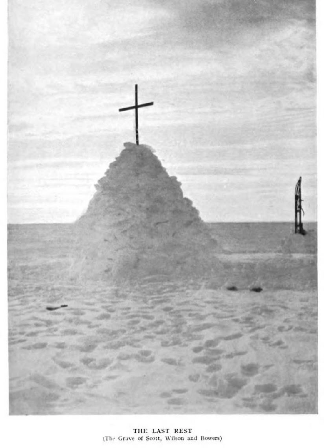 Last Rest (Grave of Scott, Wilson, and Bowers)